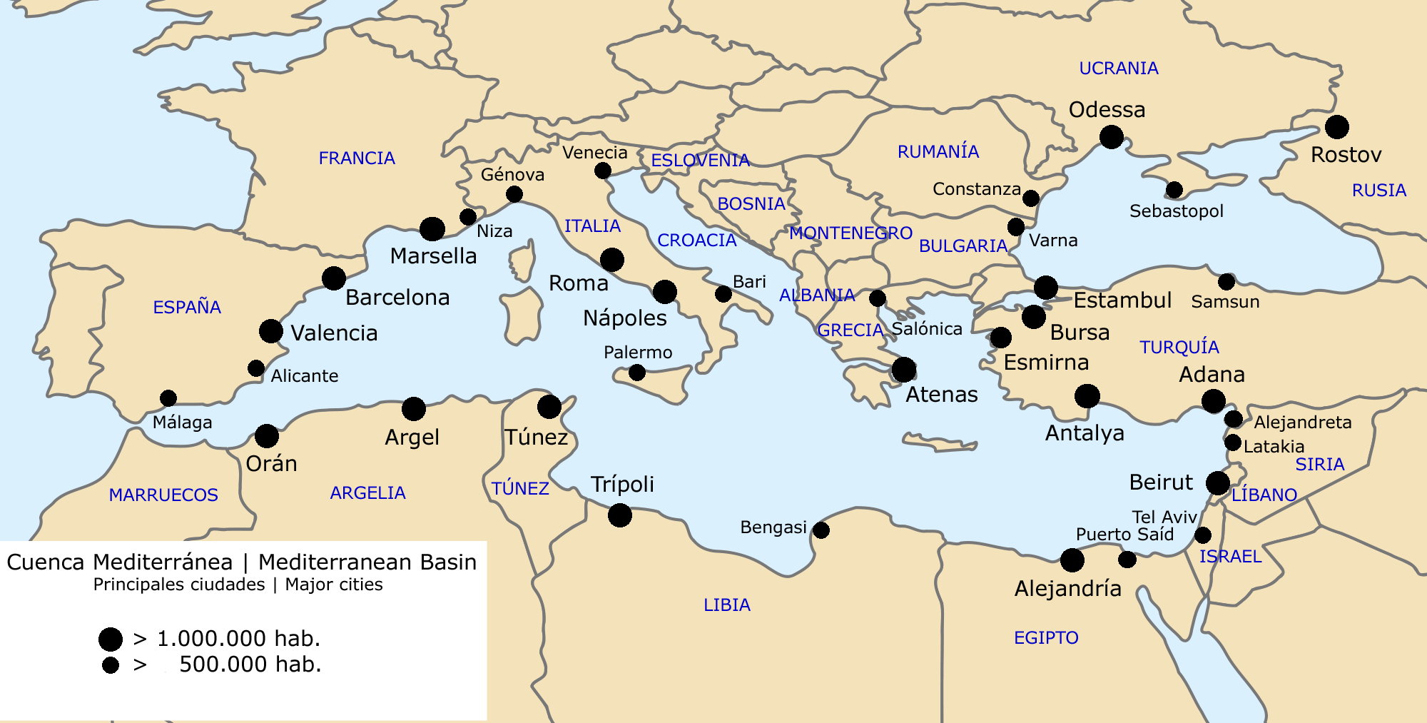 Major cities in the Mediterranean Basin.